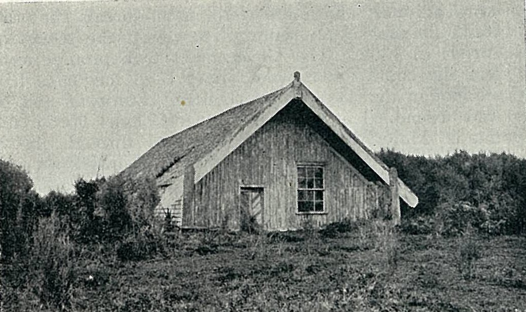 Te Kooti's deserted prayer house at Te Awahou, Te Awahou, Rotorua